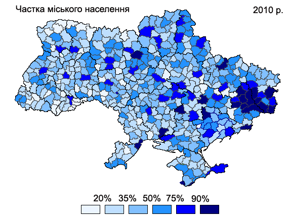 City population of Ukraine